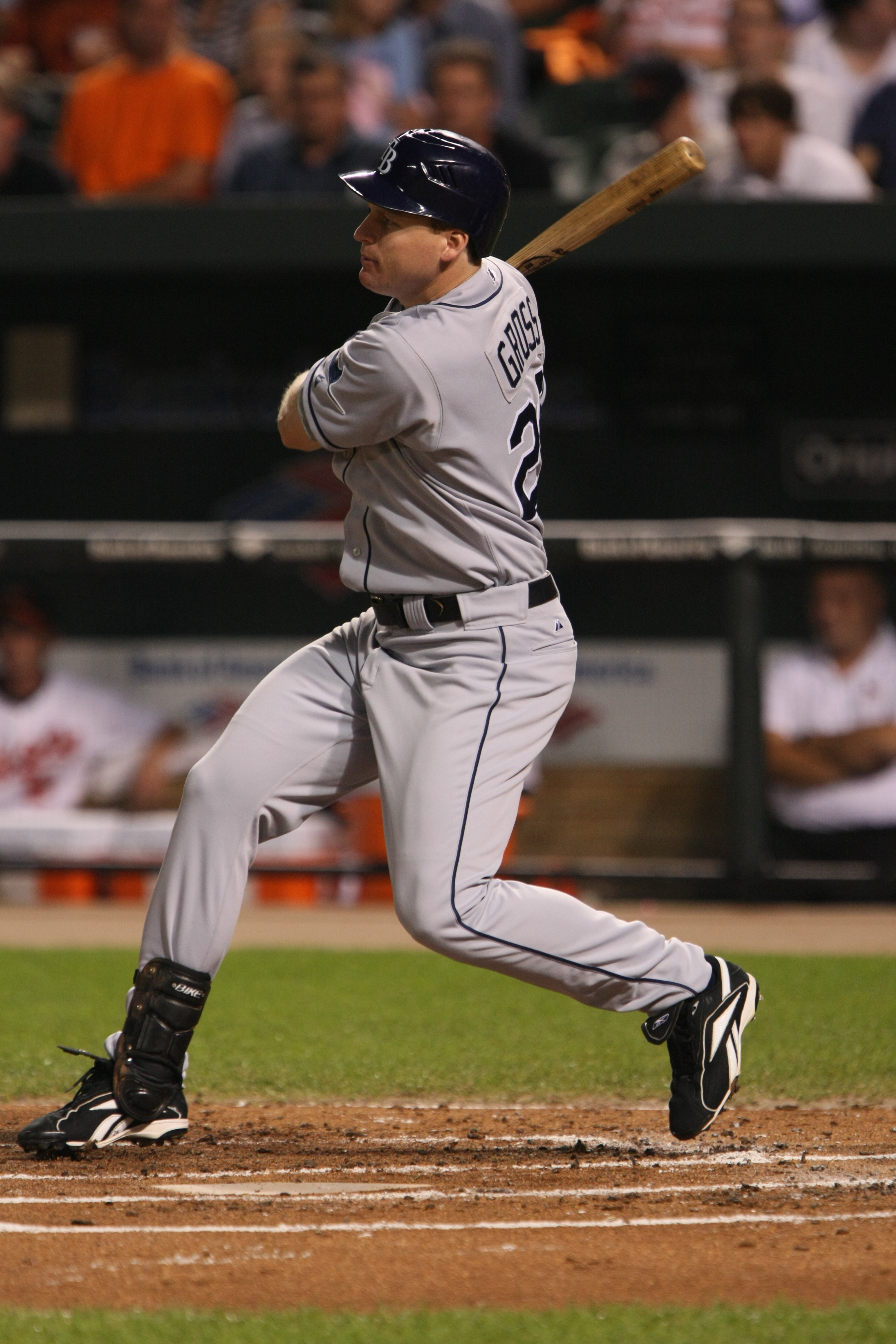 Gabe Gross against Baltimore Orioles